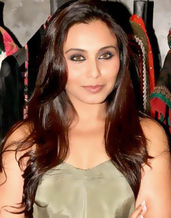 Rani Mukerji at Sabyasachi's store launch